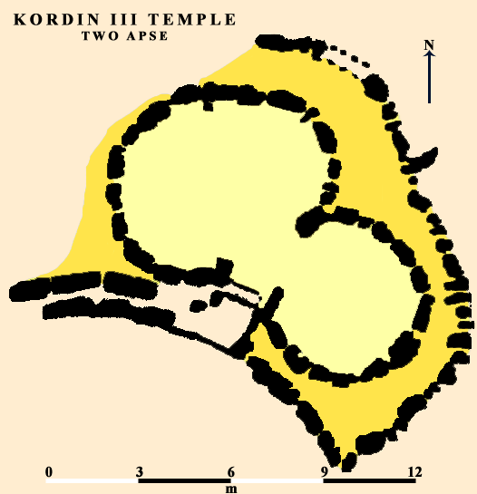 A plan of the two-apsed Kordin Temple site, in Malta.